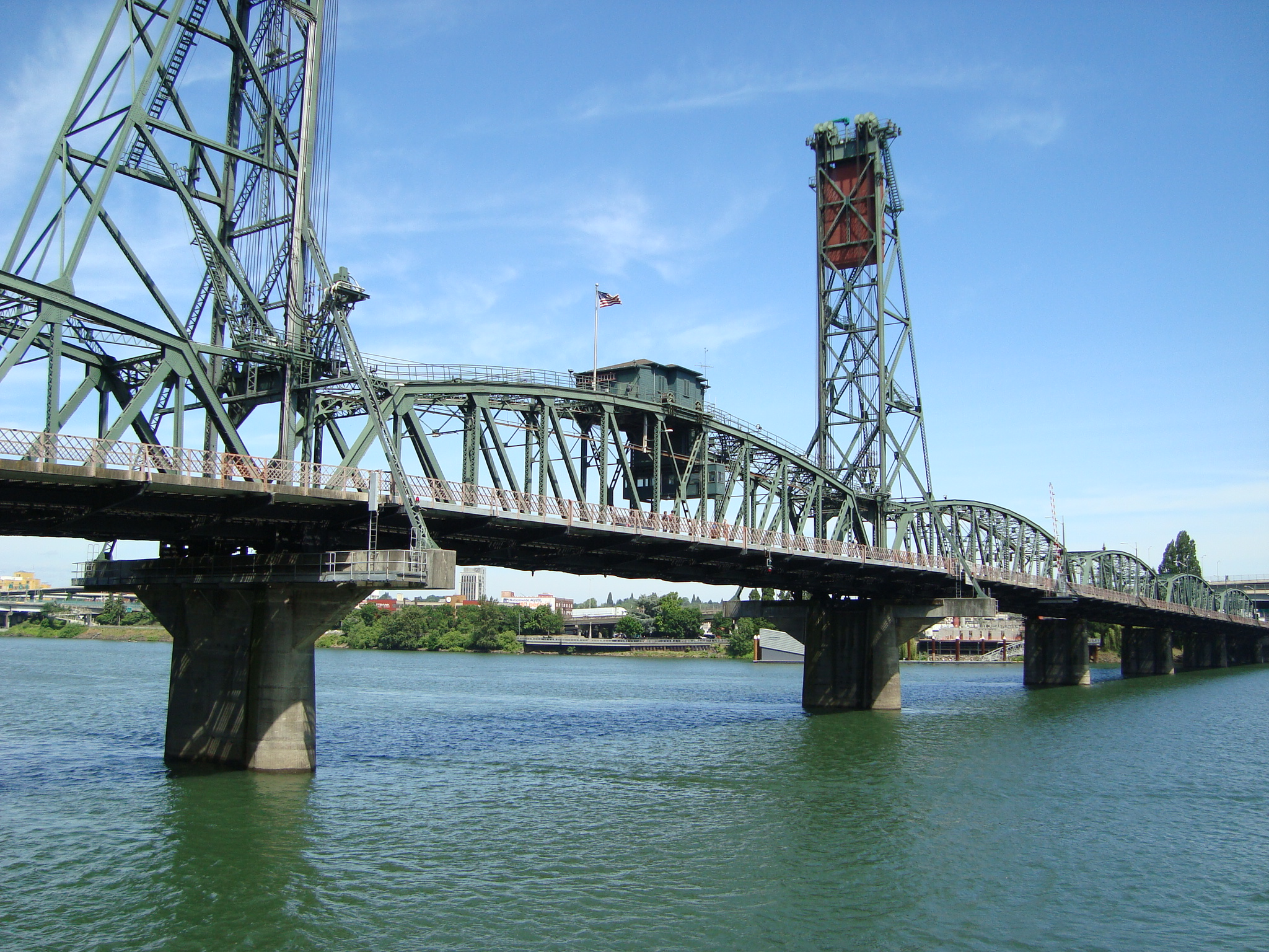 Portland